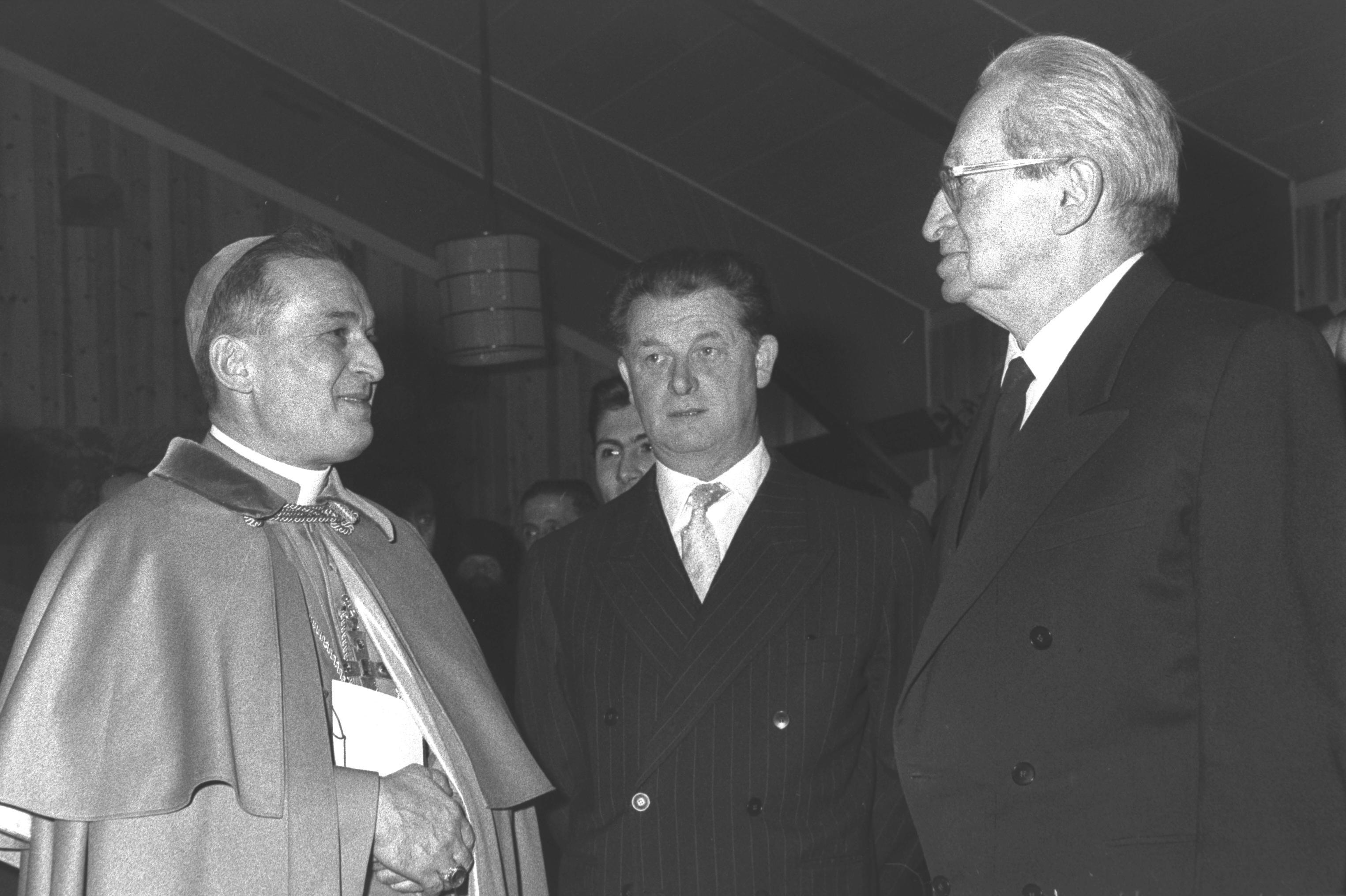 Patriarch Pier Giorgio Chiappero and President of Israel Izhak Ben Zvi, Jerusalem, December 30, 1959